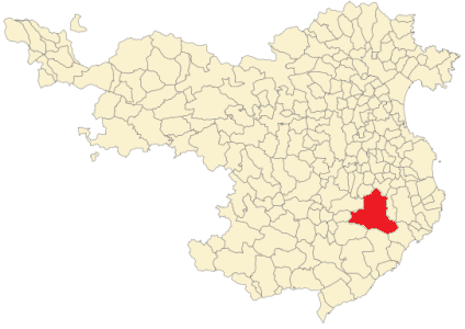 Sant Sadurní de l'Heura